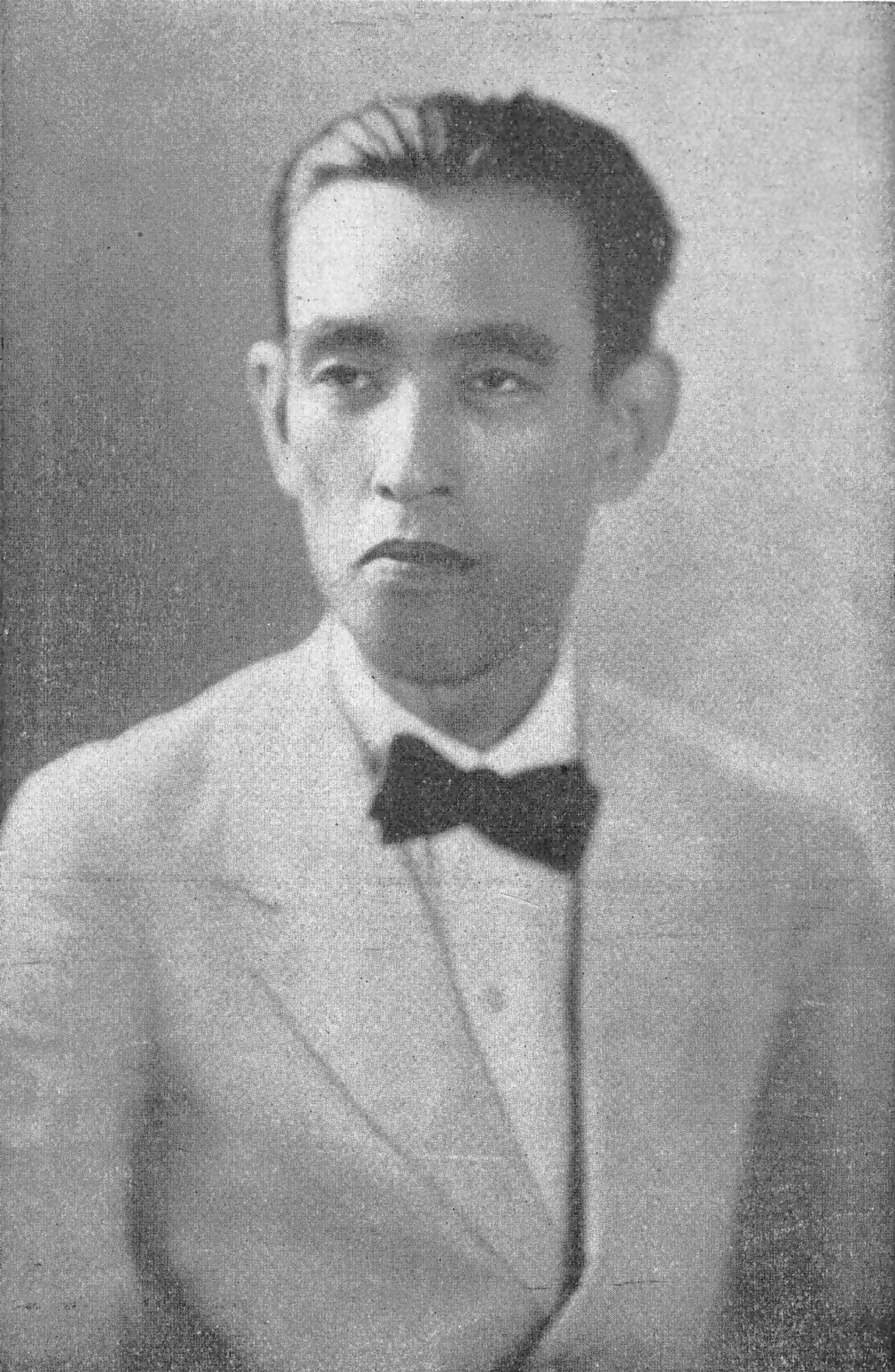 Kafū_Nagai(1879 -1959）、was a Japanese writer.